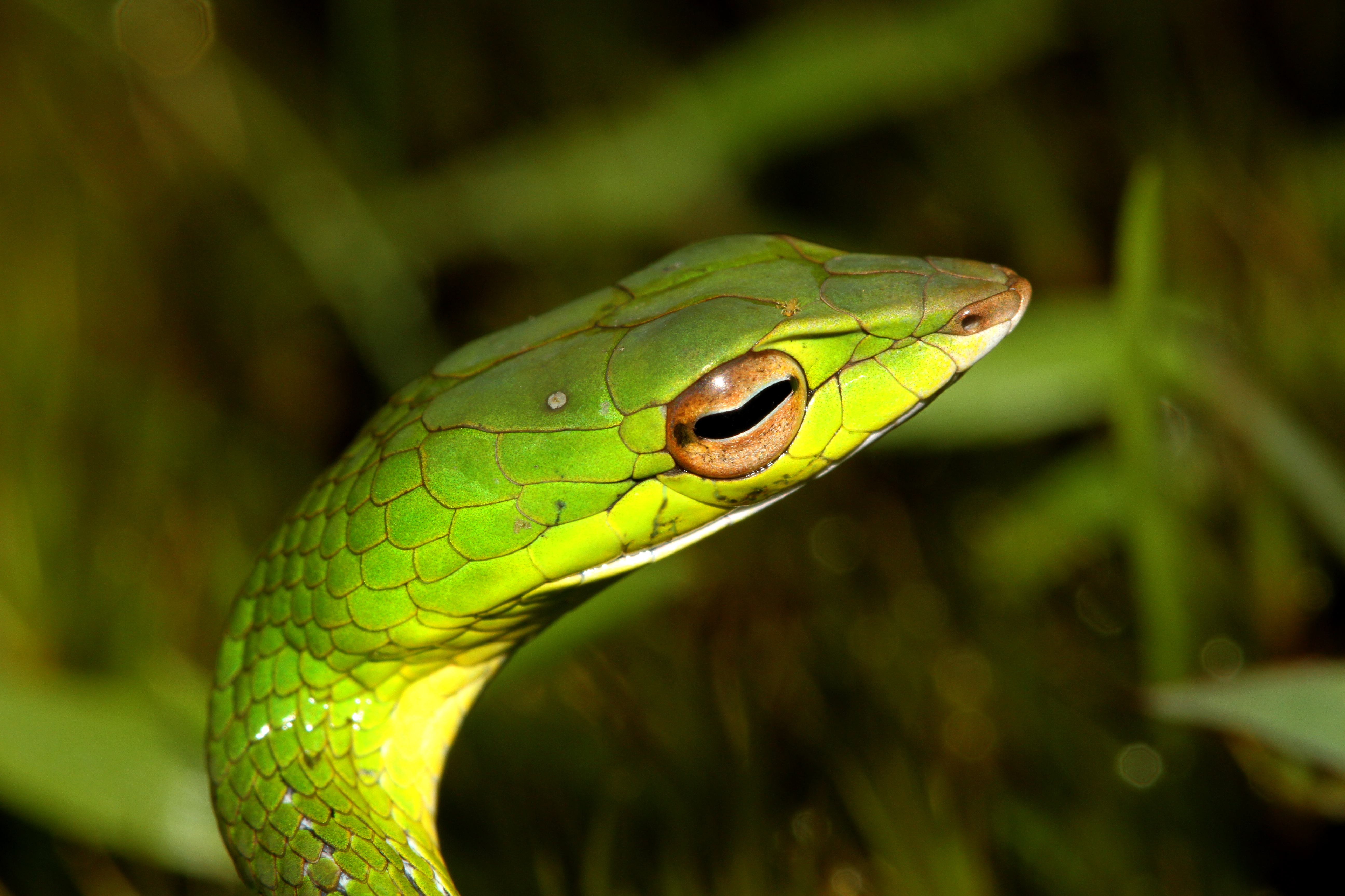 Reptiles from India